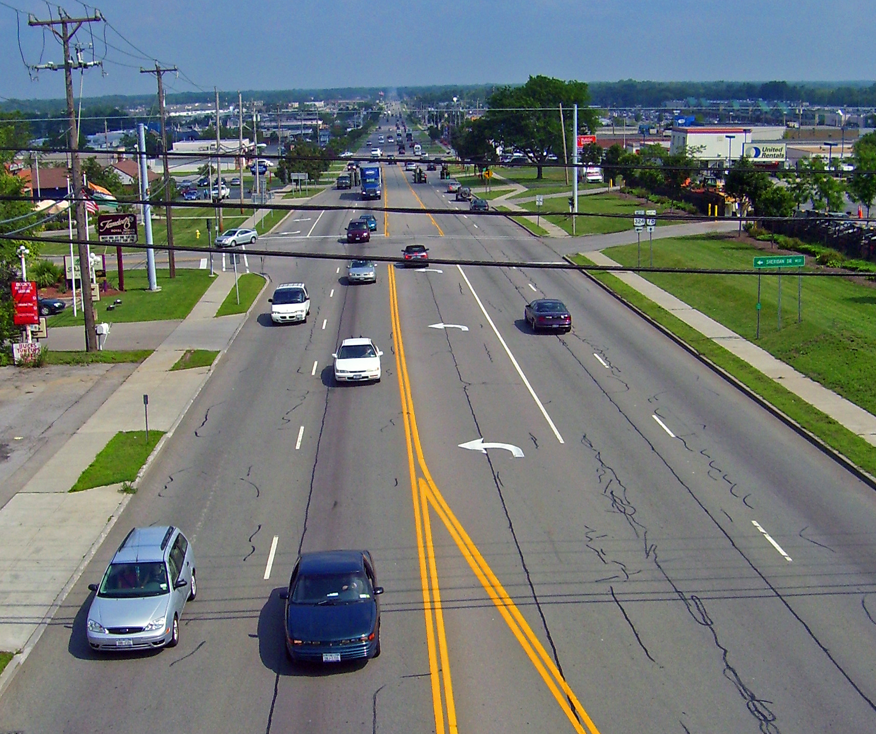 Photographed by Daniel Case 2006-07-31 from the Sheridan Drive overpass